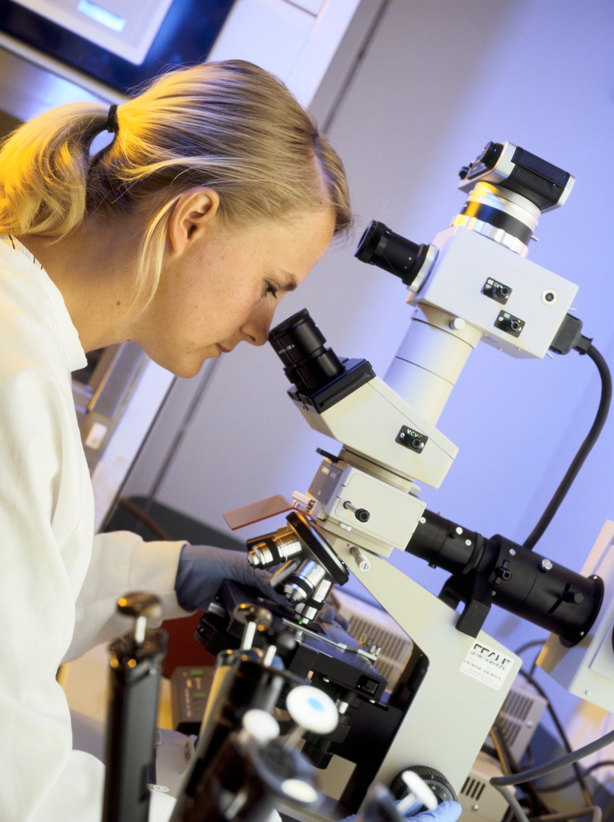 Yeast Cells are observed by fluoresence microscopy as part of a Preventative health project on Alzheimer's disease.